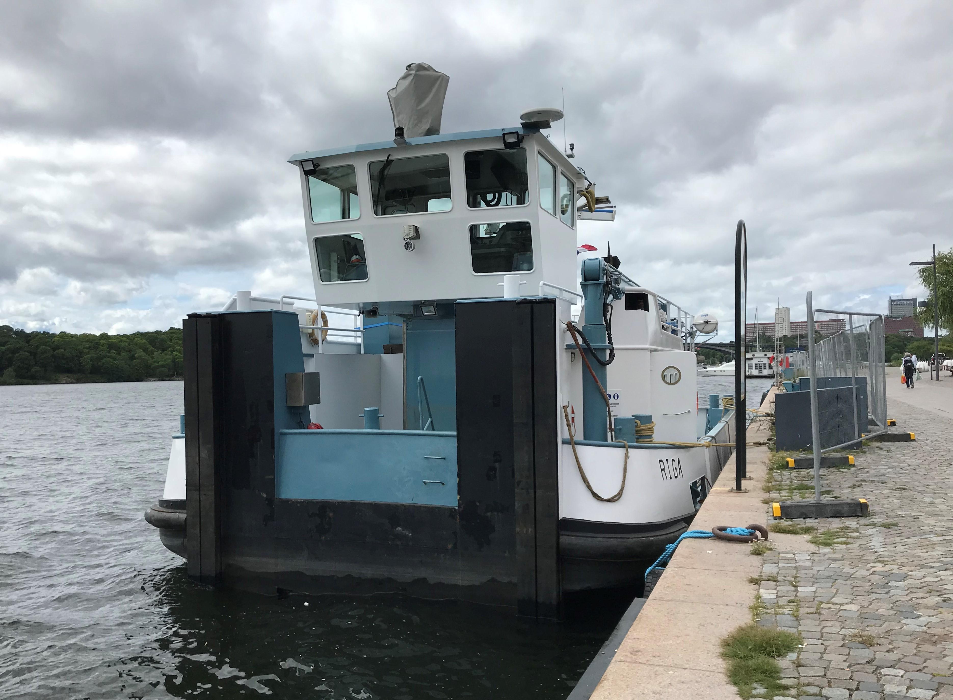 The Dutch Tugboat Riga built by Dolderman NV (2012) in Riddarfjärden in Stockholm on July 22, 2020, moored by Norr Mälarstrand in Kungsholmen.